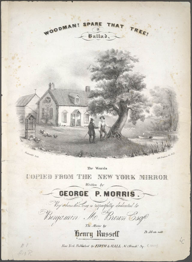 Sheet music cover of Woodman! Spare that Tree! by George Pope Morris